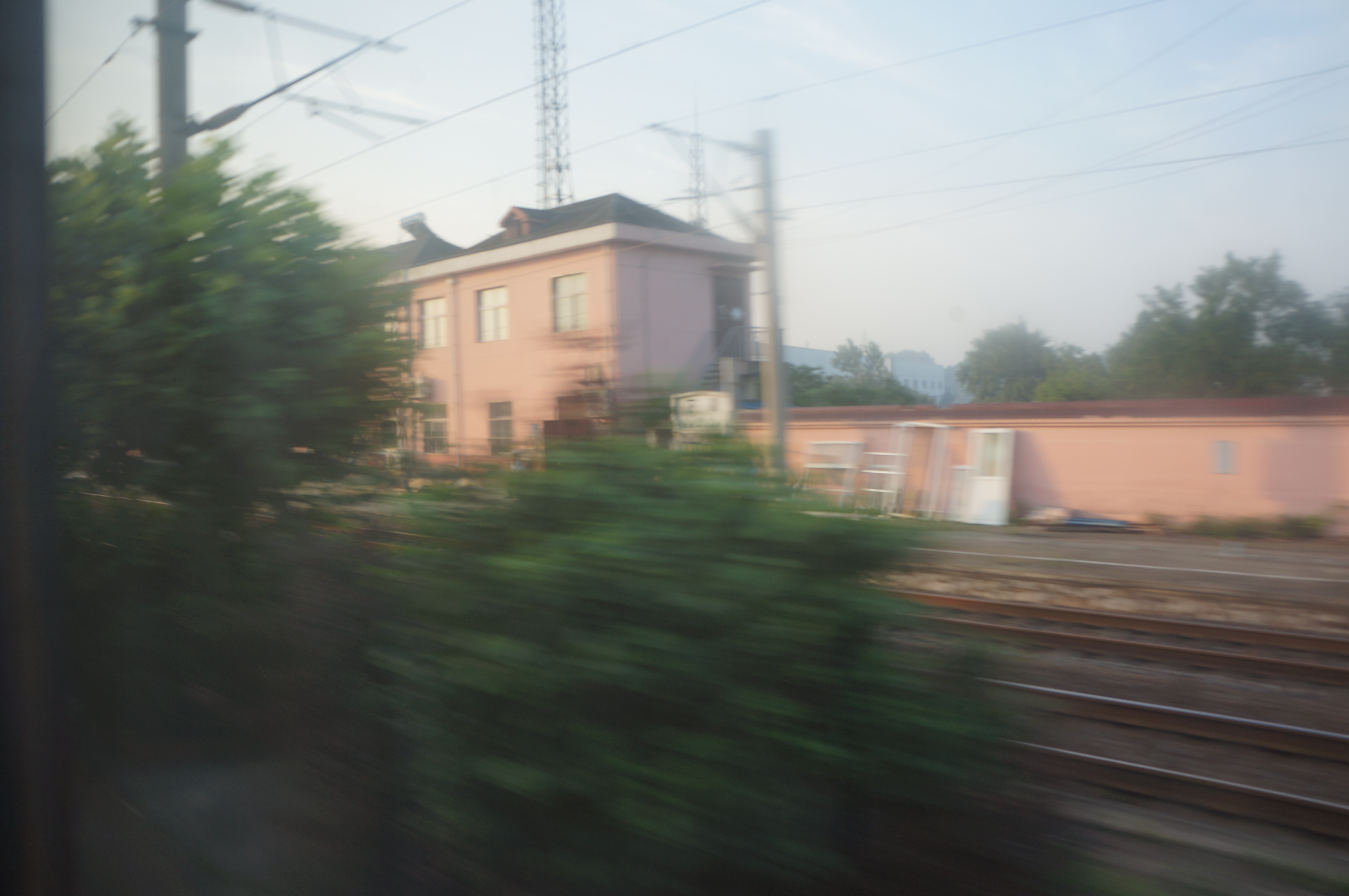 201606 Z9 passes Xiashu Station